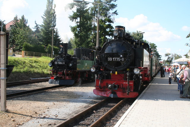 Two trains at Moritzburg